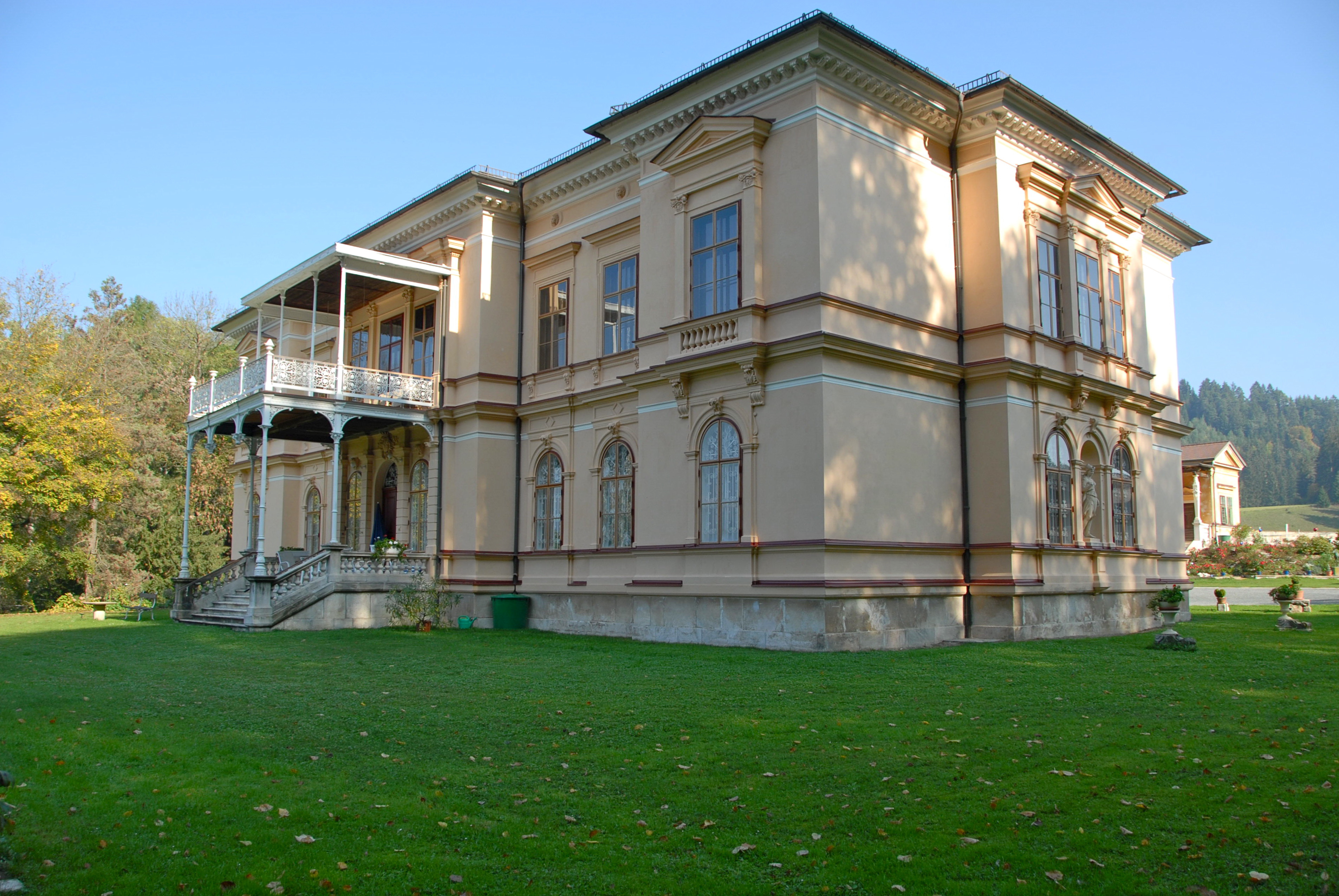 Castle at Rottenstein #1, municipality Sankt Georgen am Längsee, district Sankt Veit on the Glan, Carinthia, Austria, EU